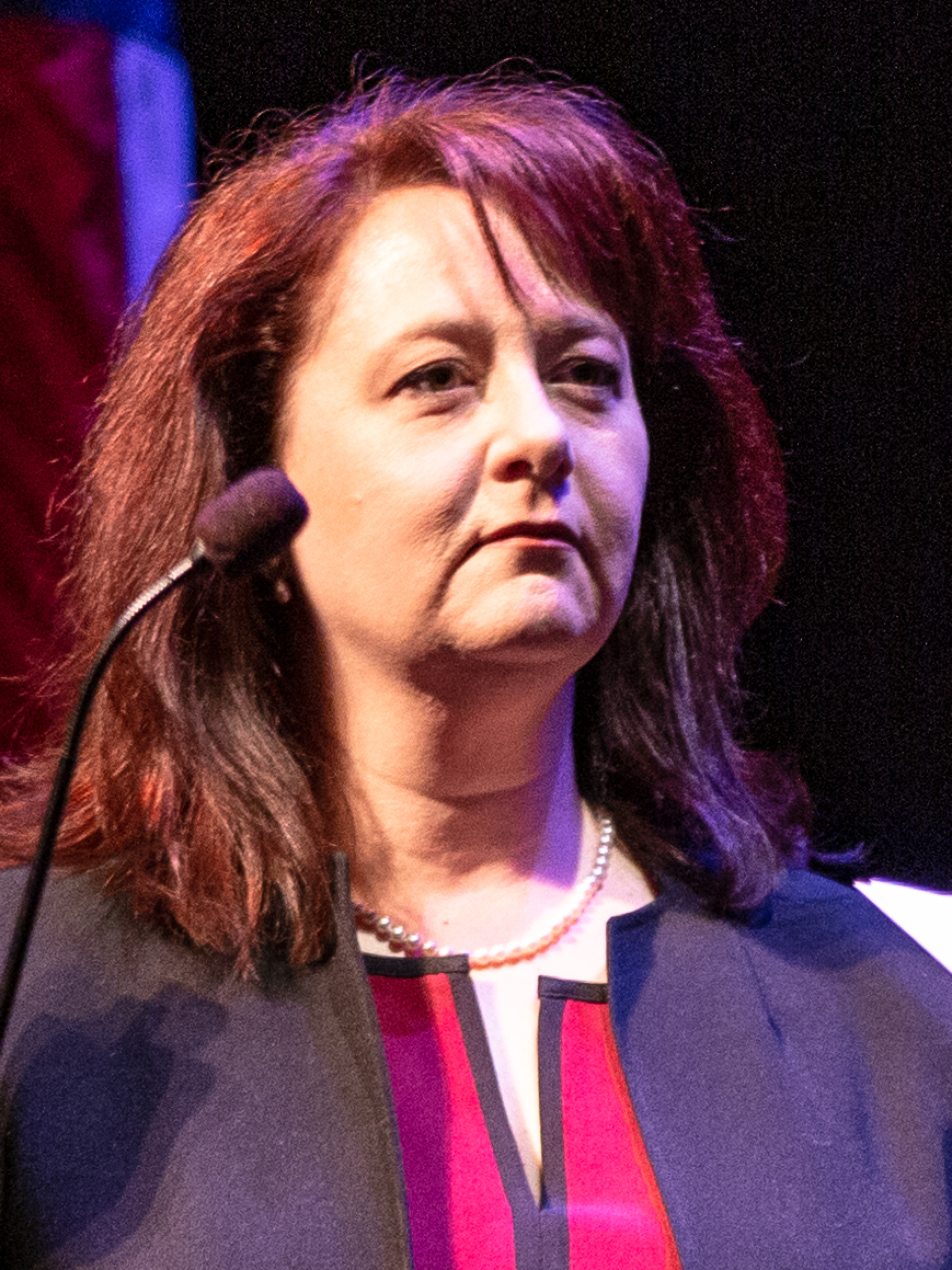 Minnesota State Auditor Julie Blaha is sworn in at the Fitzgerald Theater, St Paul MN